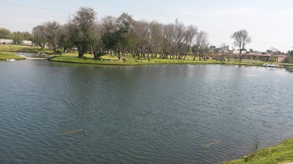 An ideal place for tourists visiting Puebla place